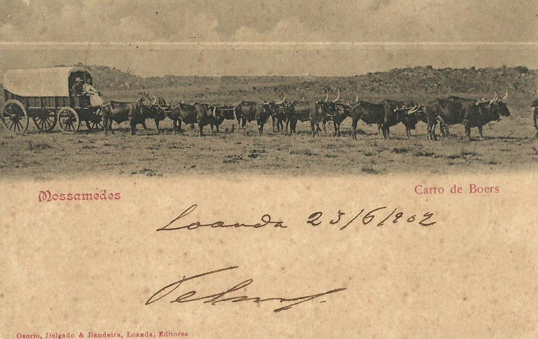 1902 Boer 6-span oxen wagon, Mossamedes (postcard)